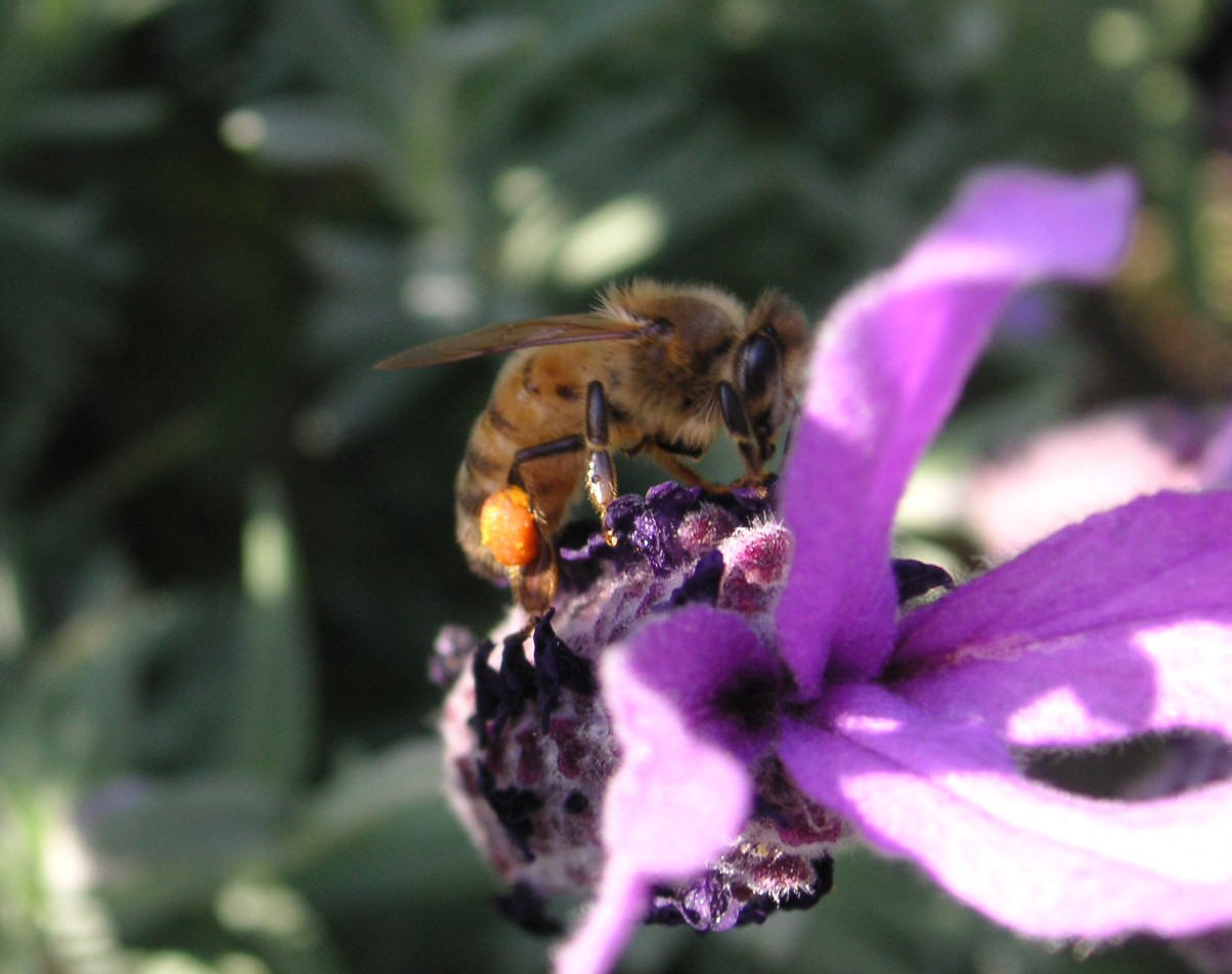 Bee collecting pollen from lavender, coastal NSW, Australia